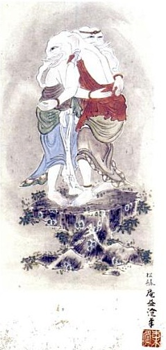 Kangiten